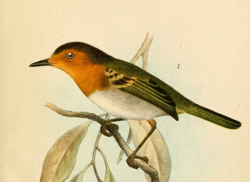 Euscarthmus russatus = Poecilotriccus russatus Ruddy Tody-flycatcher